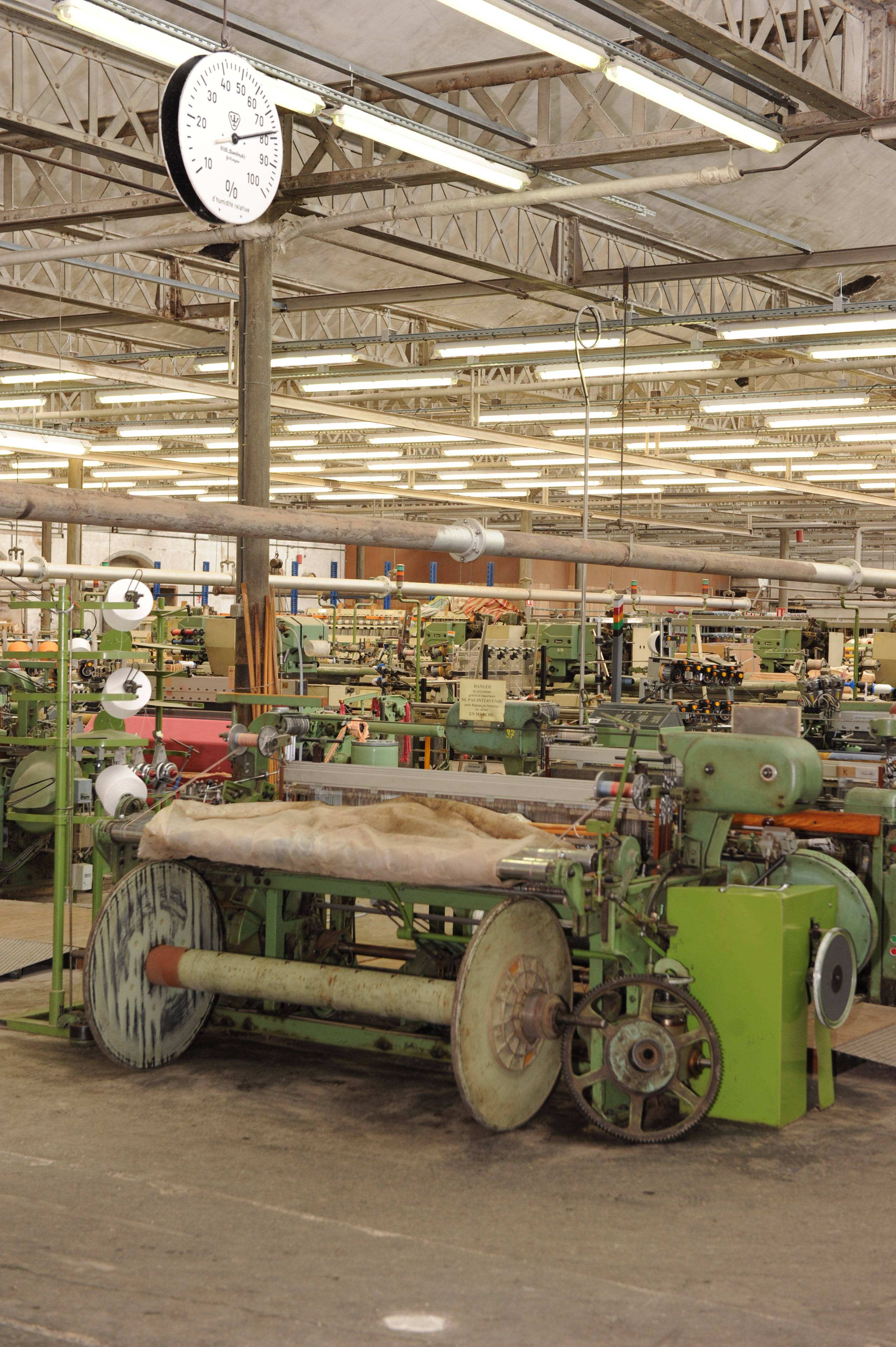 Vue de l'usine